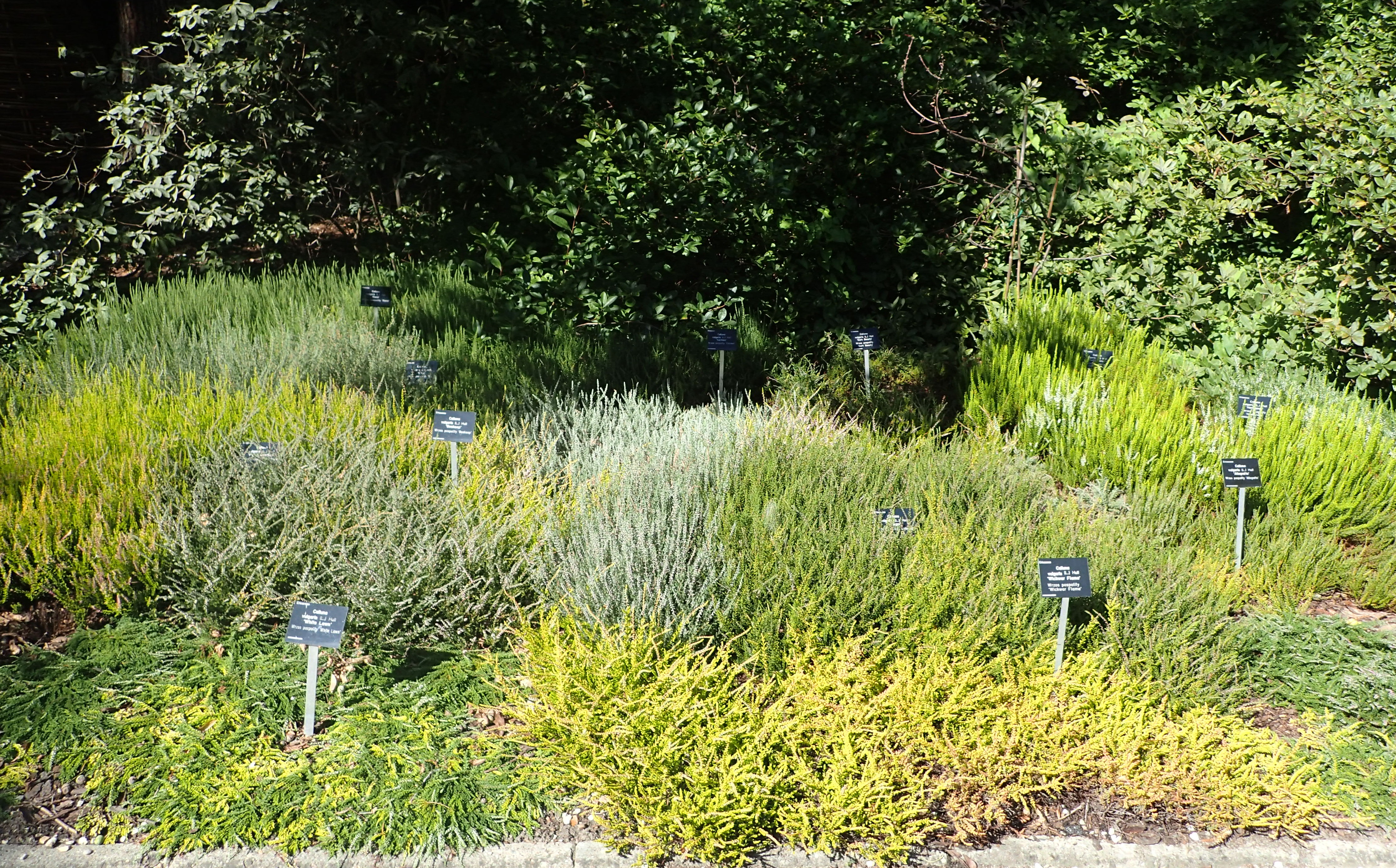 Calluna vulgaris collection in Warsaw University Botanical Garden